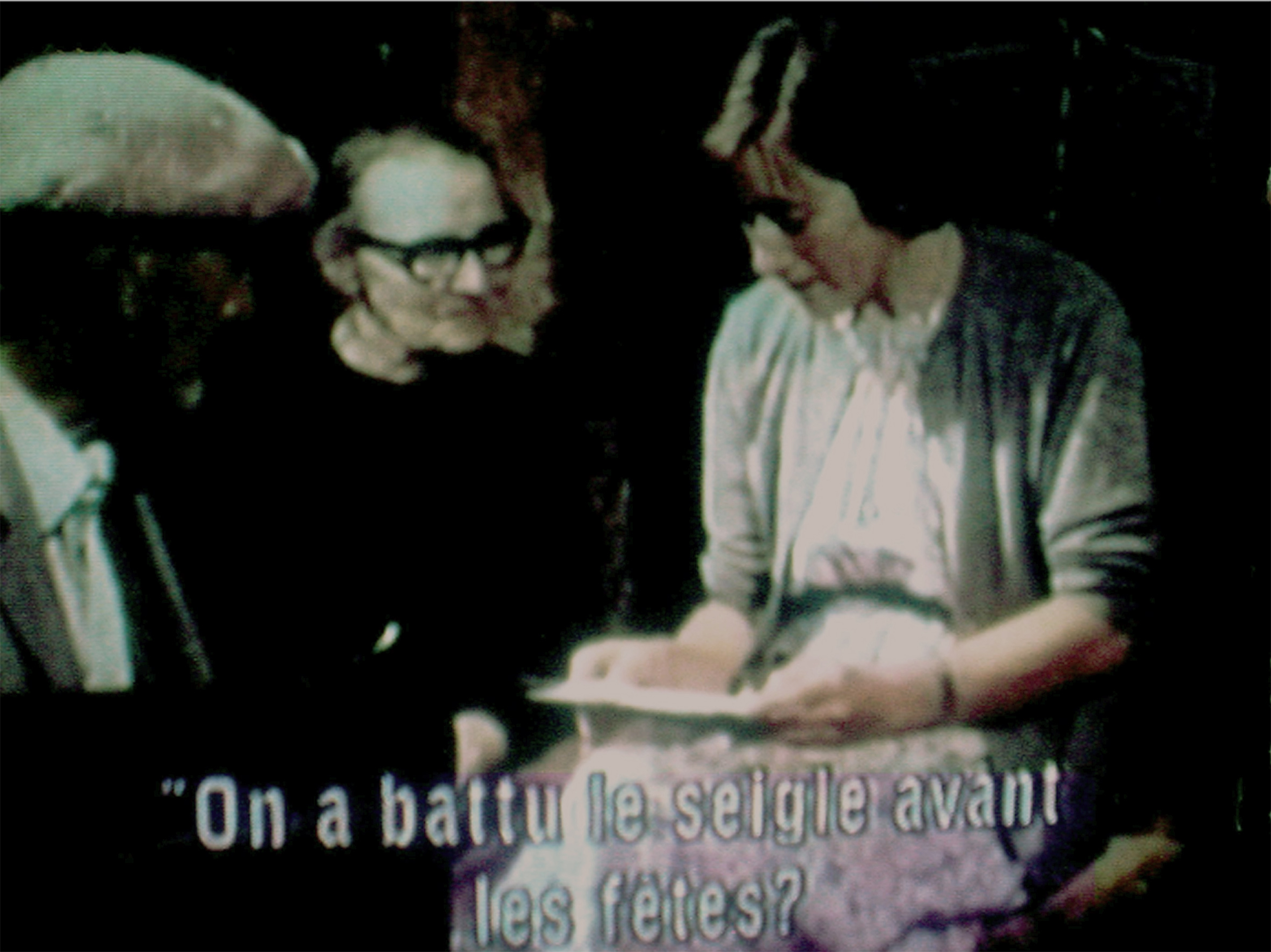 Young girl reading a letter from her brother